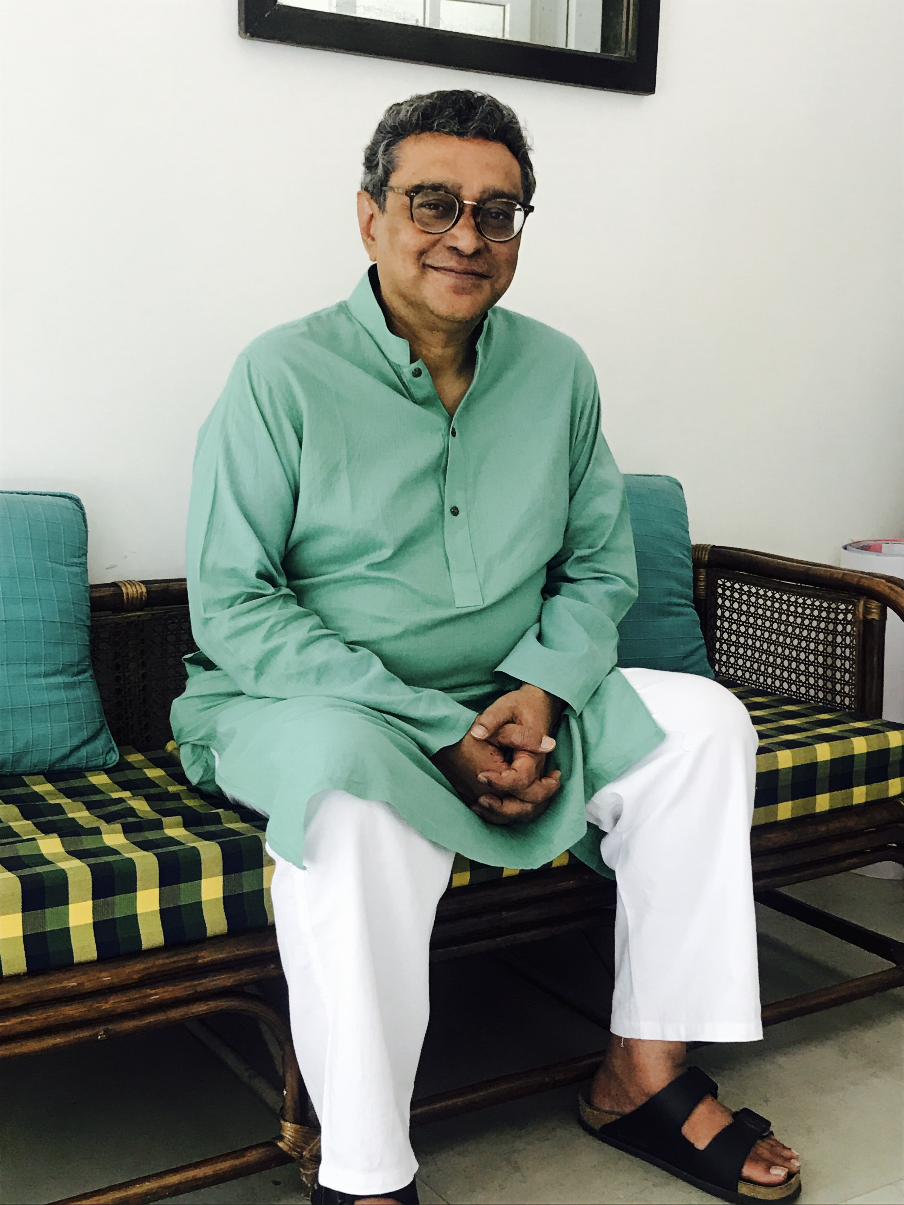 Photograph of Dr. Swapan Dasgupta, MP taken in May 2016 at his residence.